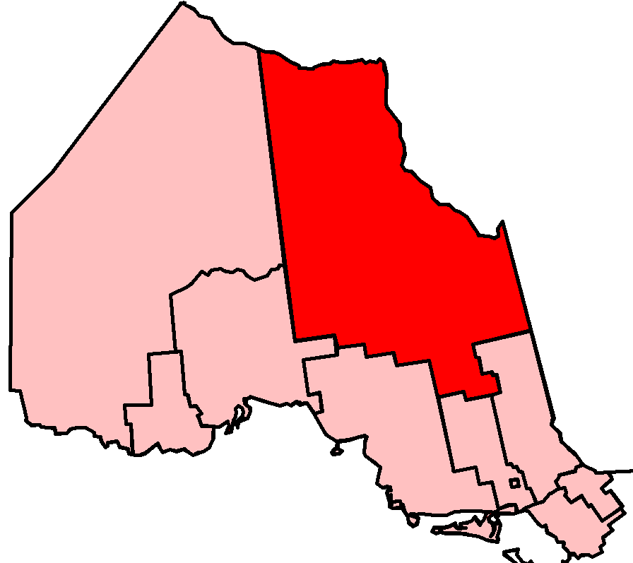 Summary: Map of riding